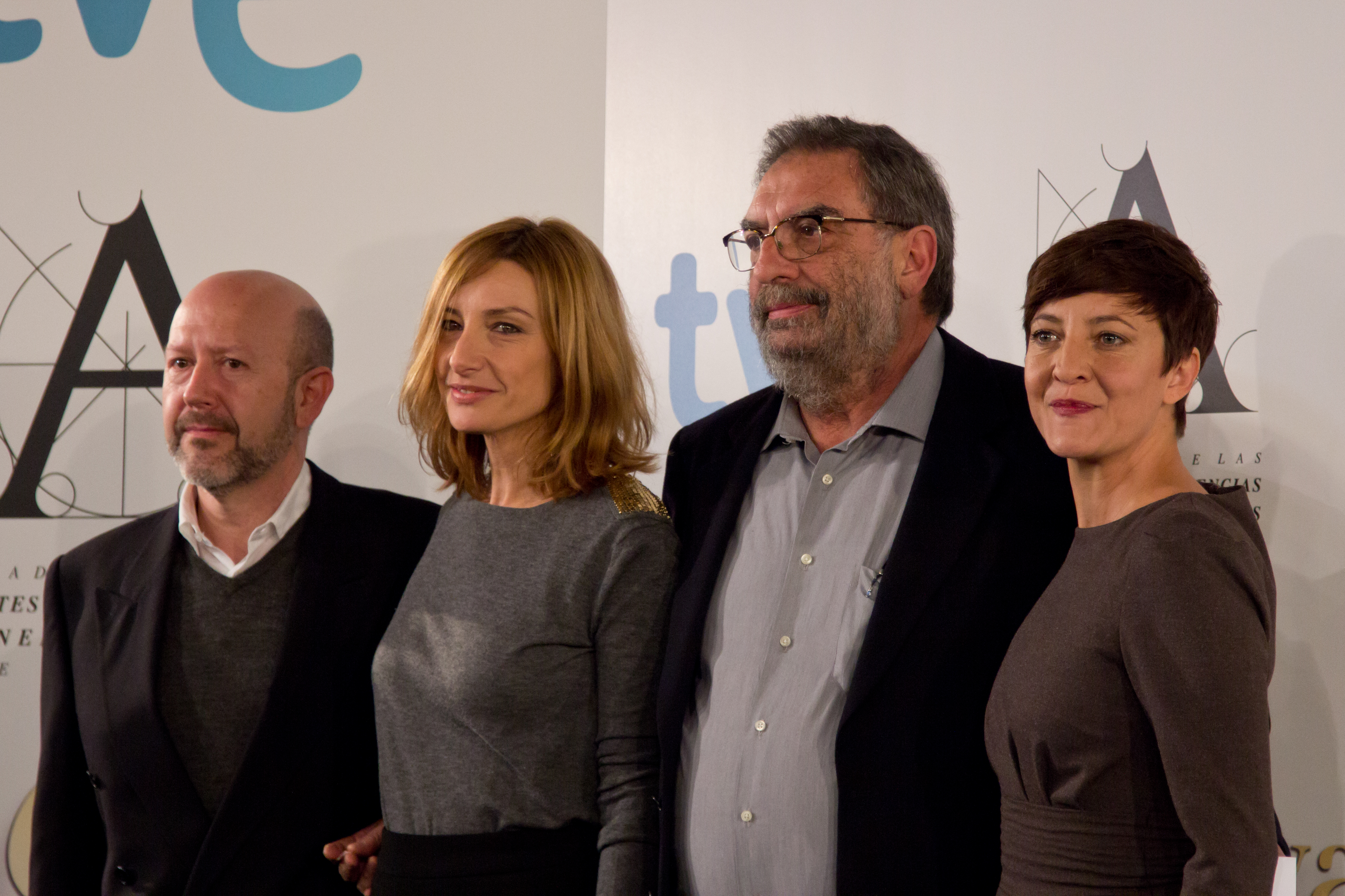 First press conference to introduce the Goya Awards 2013 and its host. From left to right: Emilio Pina, executive producer of the awards ceremony; Eva Cebrián, director of TVE's Film Department; Enrique González Macho, president of the Spanish Film Academy; and Eva Hache, hostess of the 2013 awards ceremony.